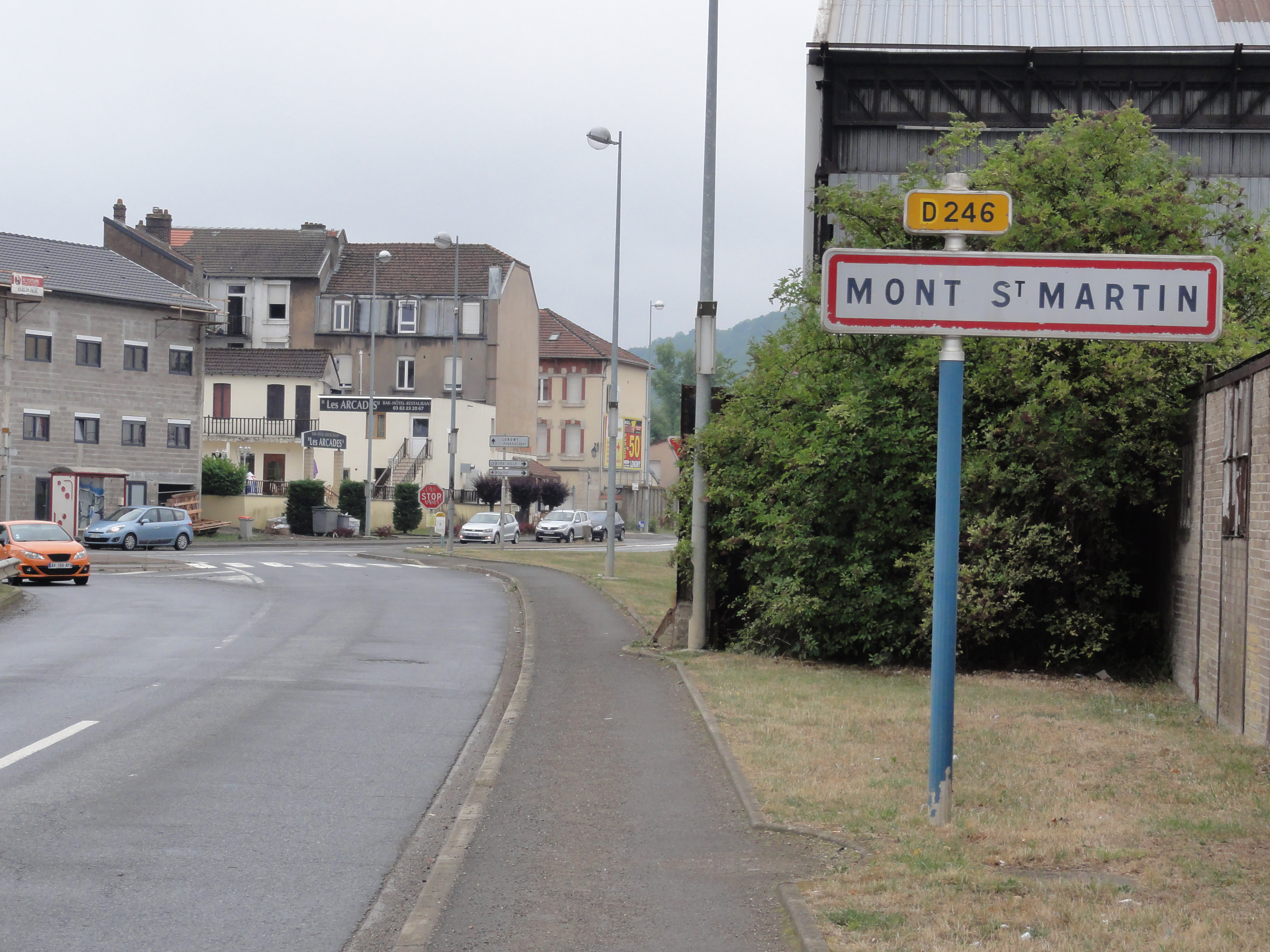 Mont-Saint-Martin (Meurthe-et-Moselle) city limit sign